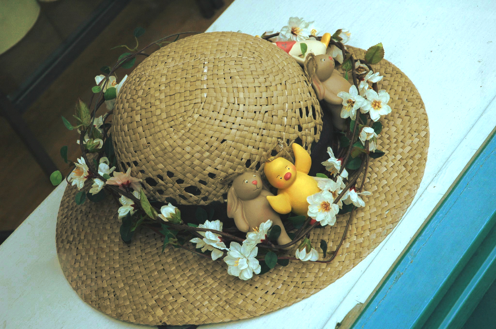 An Easter bonnet in a shop window in Conway.